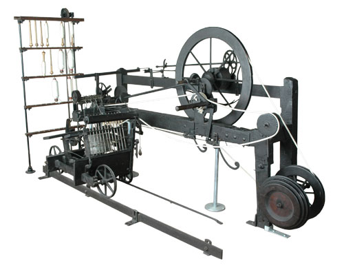 The introduction of the Spinning Mule into cotton production processes helped to drastically increase industry consumption of cotton. This example is the only one in existence made by the inventor Samuel Crompton. It can be found in the collection of Bolton Museum and Archive Service.